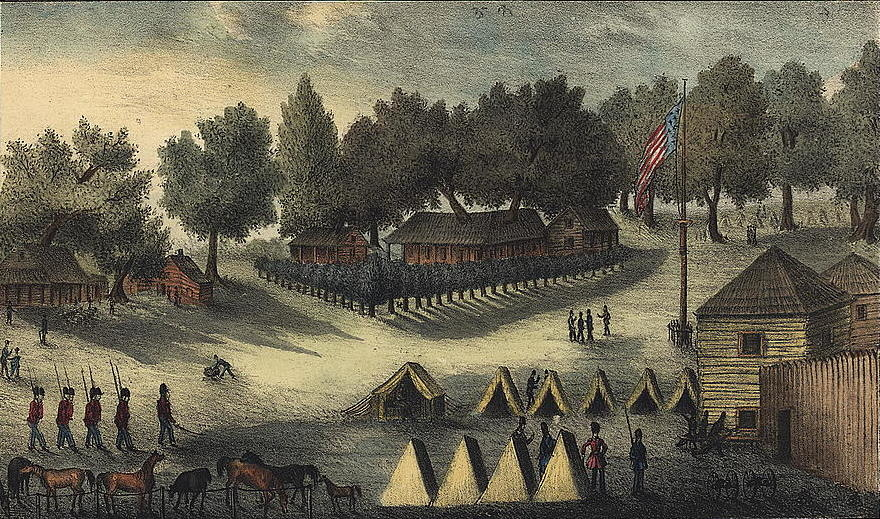 Downloaded from TITLE: Tampa Bay on the Gulf of Mexico CALL NUMBER: PGA - Gray & James--Tampa Bay on the Gulf of Mexico (A size) [P&P] REPRODUCTION NUMBER: LC-USZC4-4422 (color film copy transparency) LC-USZ62-16519 (b&w film copy neg.) RIGHTS INFORMATION: No known restrictions on publication. SUMMARY: View of barracks and tents at Fort Brooke during the Seminole War in Florida in 1835. MEDIUM: 1 print : lithograph, hand-colored. CREATED/PUBLISHED: [Charleston, S.C. : T.F. Gray and James, 1837] CREATOR: Gray & James. NOTES: No. 5 in set of 8 "Views of Florida." The State Library and Archives of Florida cites as "Lithographs of events in the Semonole War in Florida in 1835. Issued by T.F. Gray and James of Charleston, S.C., in 1837."